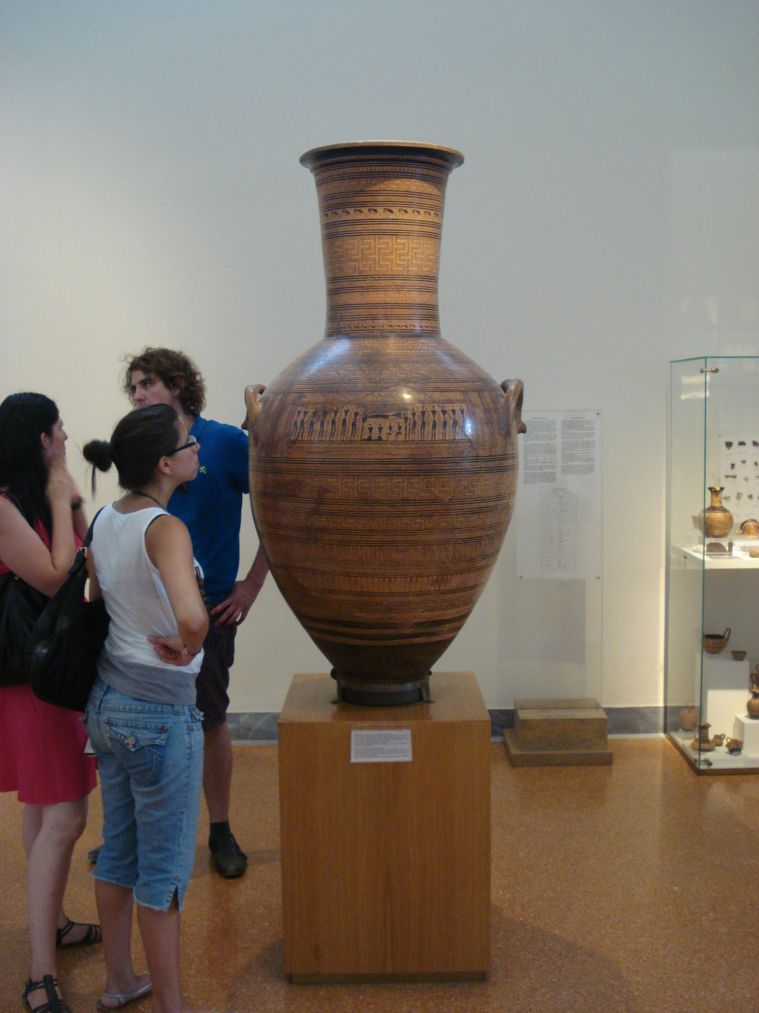 Athenian funerary amphora, Late geometric I. The main scene shows the prothesis and mourning for the dead. Over the bier is the shroud. Men, women and a child lament with the hands on their heads in the usual mourning gesture.